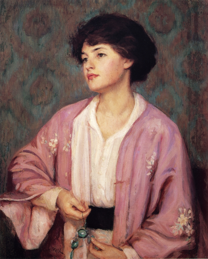 The Lavalier